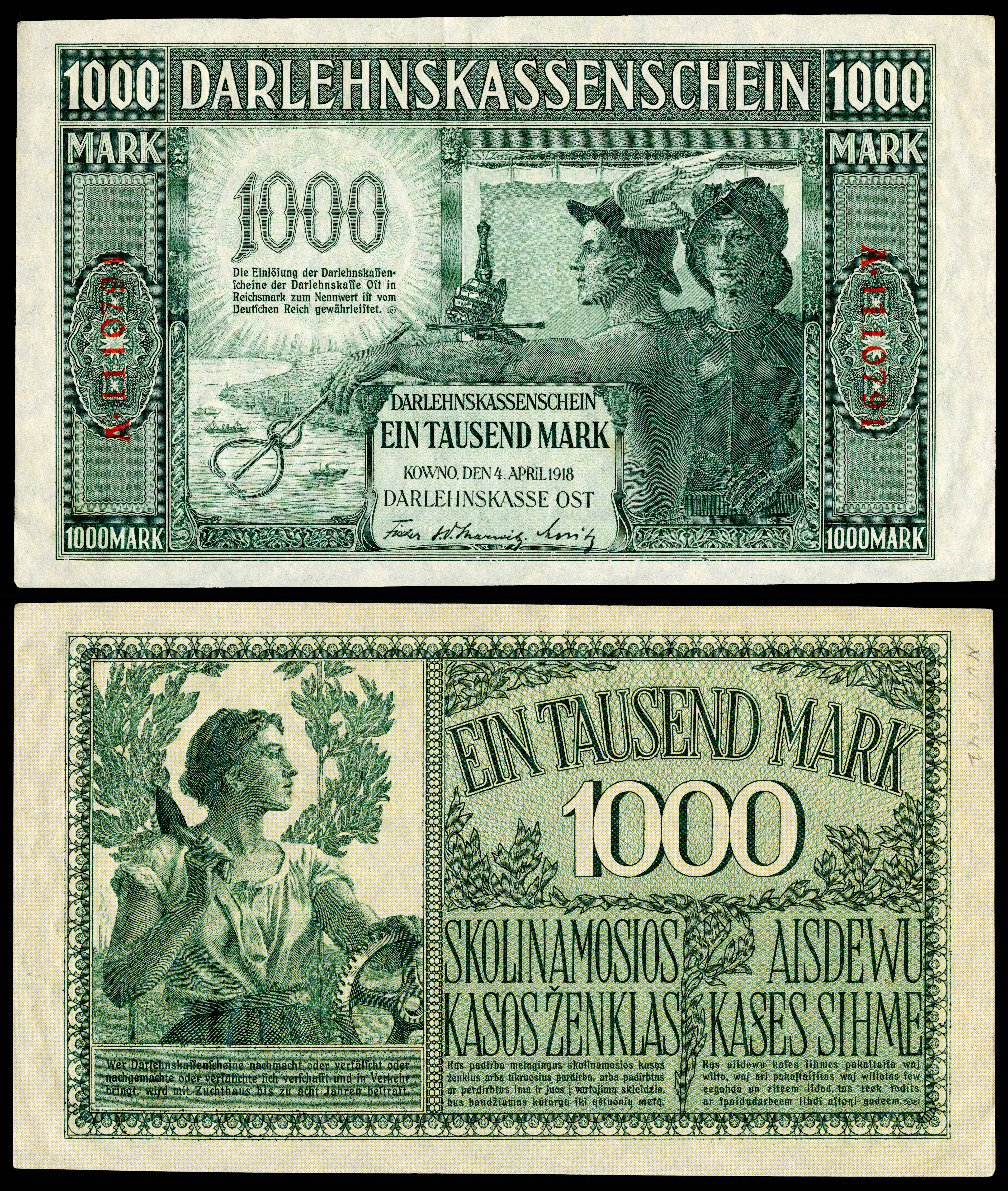 German Empire, State Loan Bank in Kowno (Kaunas), 1000 Mark (1918) circulated from 1918 to 1922 in Lithuania, Latvia, and Poland.